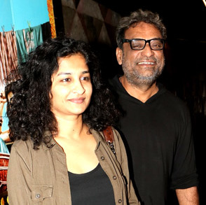 Director Gauri Shinde and her husband R. Balki attend a special screening of the film Running Shaadi